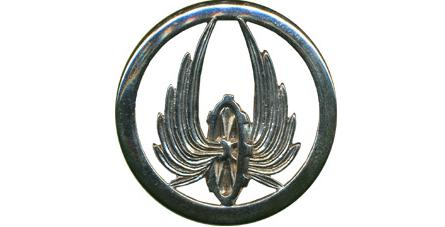 Beret badge of Logistics Corps (France).